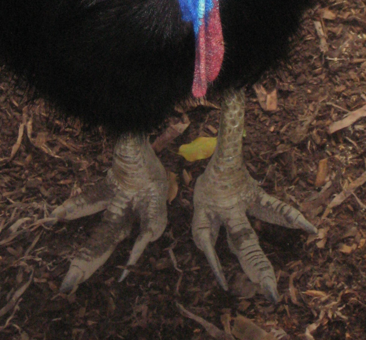 Picture of a Southern Cassowary (C. casuarius) in the Rainforest Habitat in Port Douglas, Australia, September 2008.